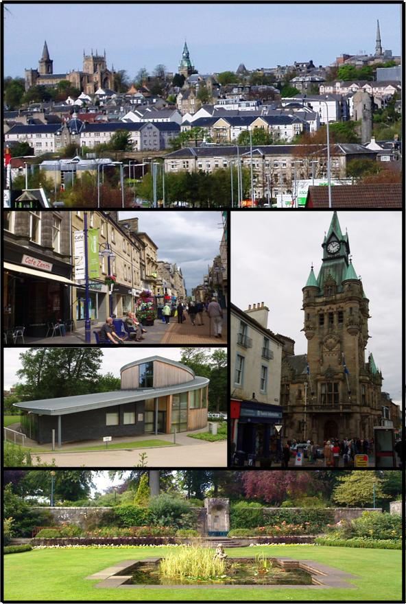 Various images of Dunfermline- Top: Dunfermline skyline. Middle left: Dunfermline High Street. Middle right: Dunfermline City Chambers. Bottom left- Carnegie Trust HQ Building, Pittencrieff Park. Bottom: Italian Garden, Pittencrieff Park.